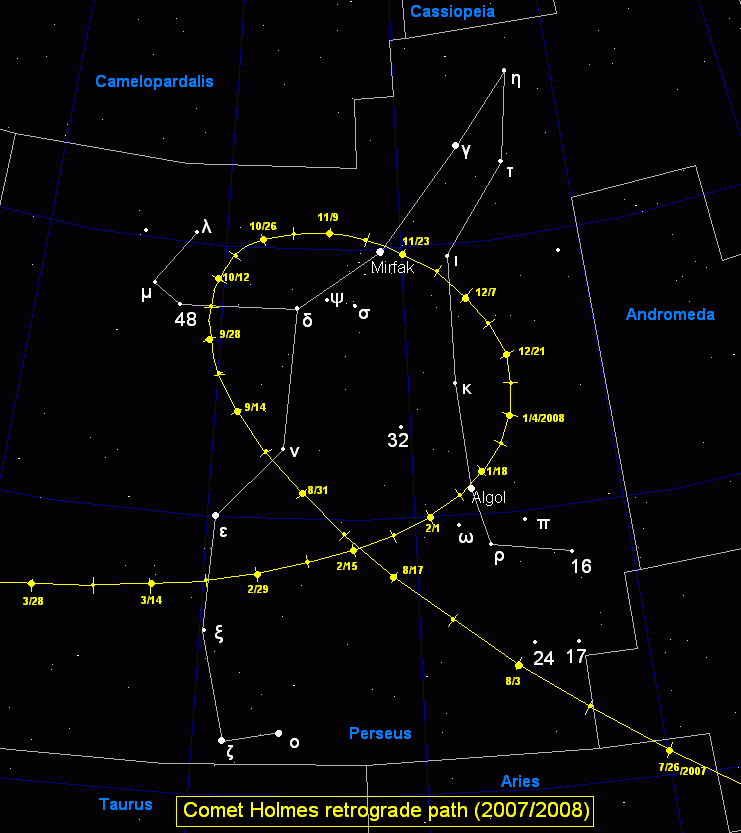 Periodic comet en:17P/Holmes path in Autumn 2007 Orbital elements from [1] thumb|Full Sky logo